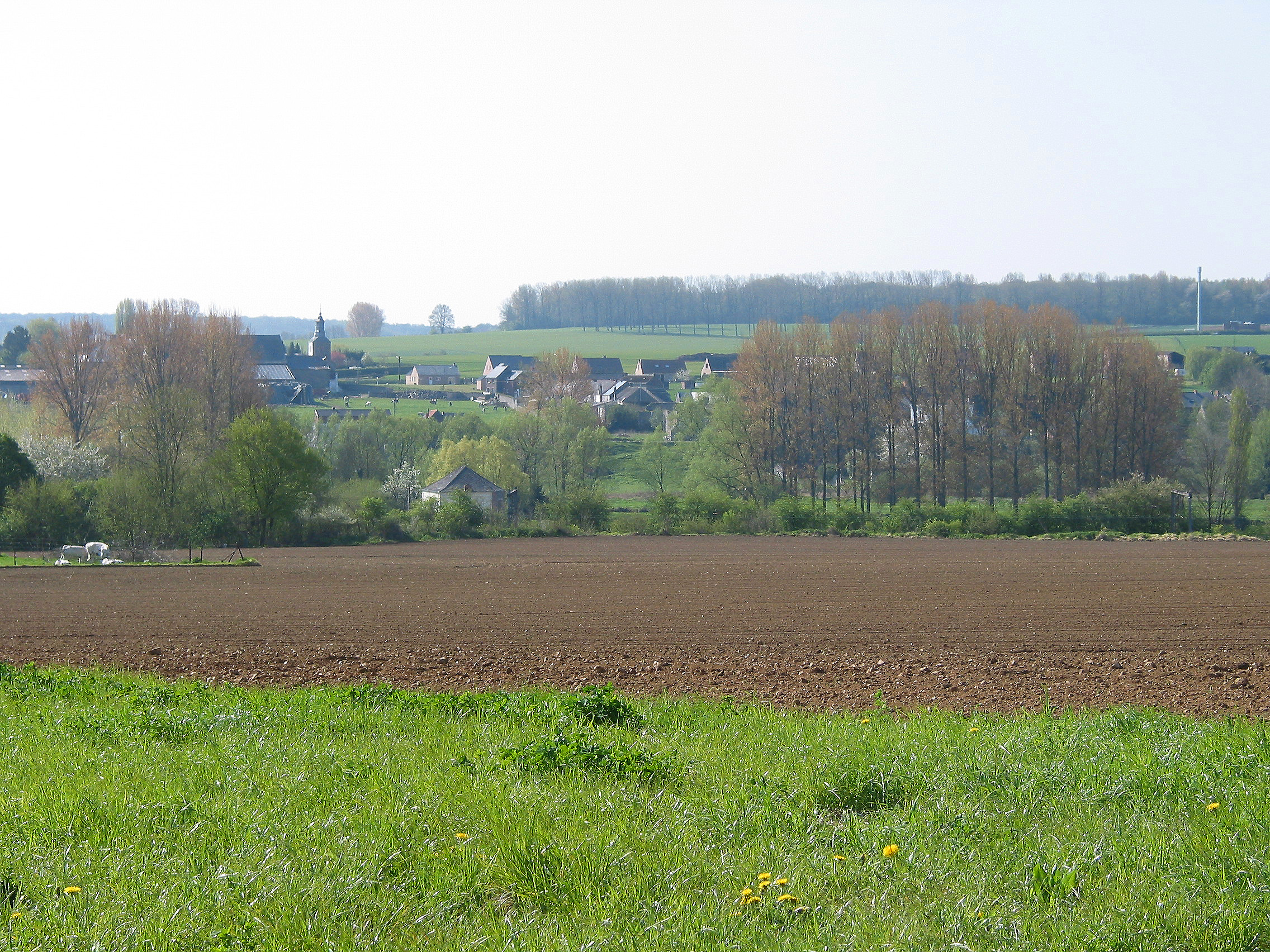 Solre-sur-Sambre (Belgium), the village in the springtime.